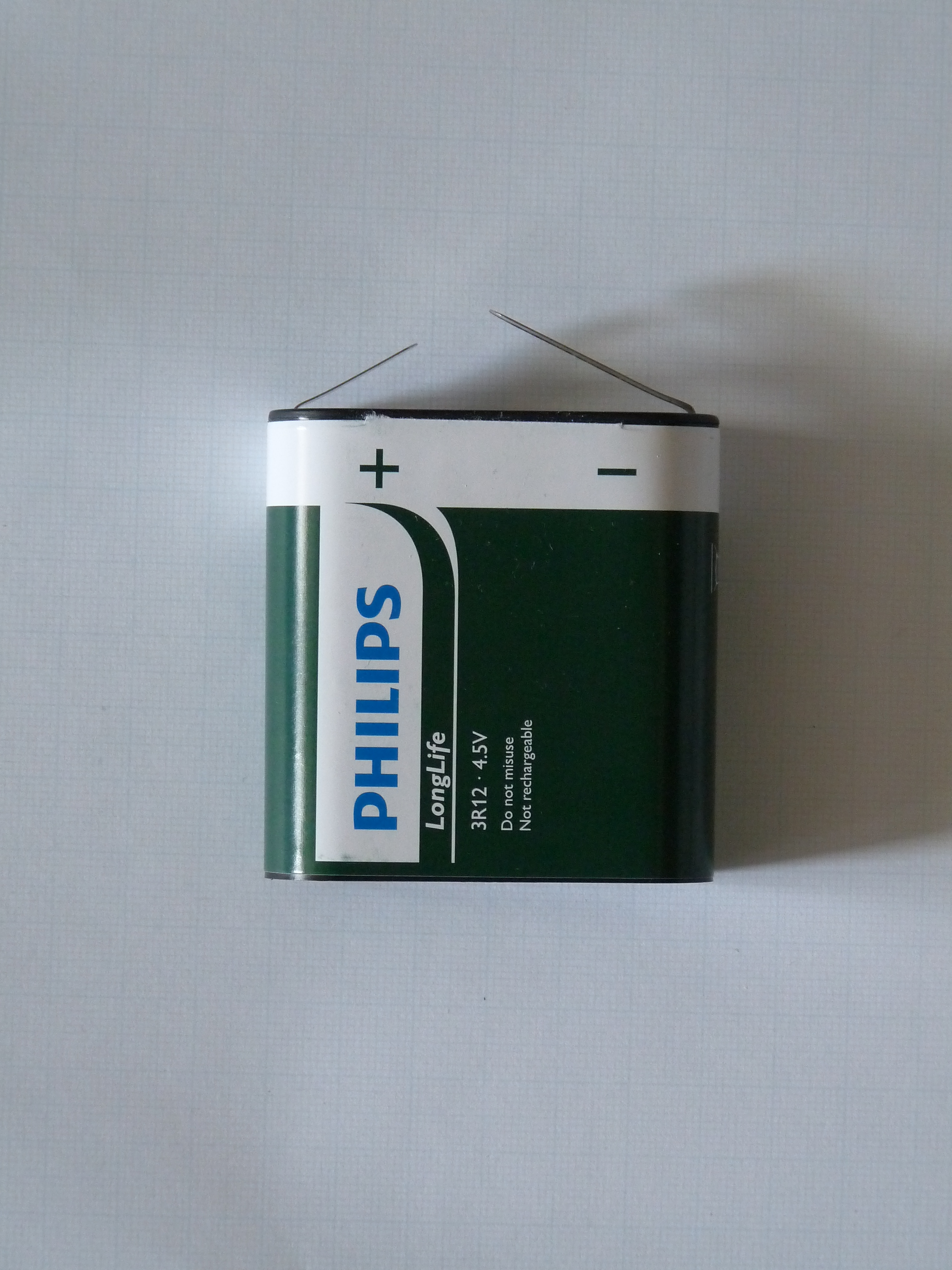 Philips 4.5-volt battery